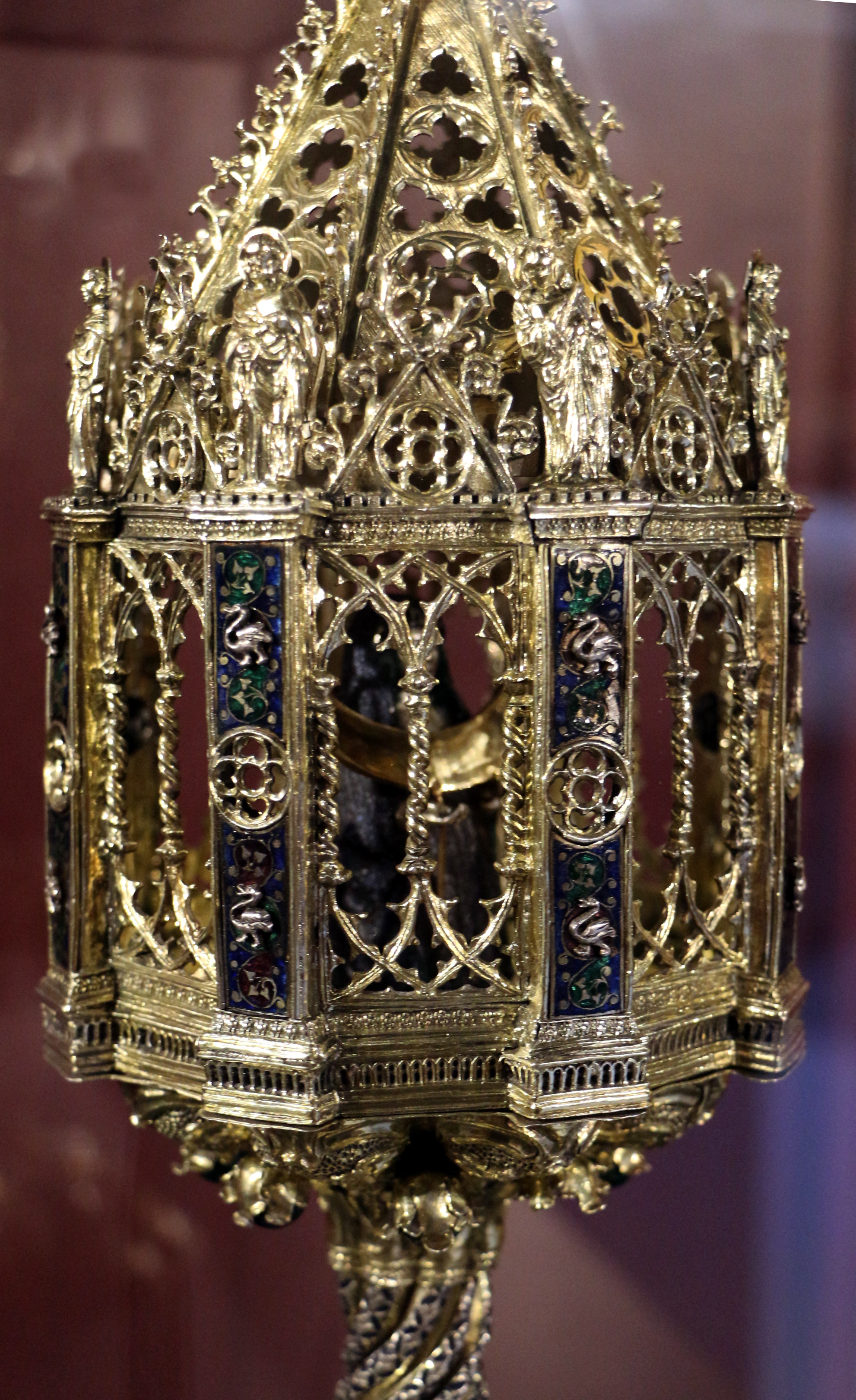 Il Tesoro d'Italia (exhibition at Expo 2015)